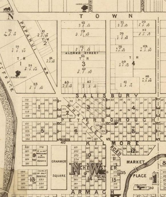 Map of Victoria Street in Christchurch in 1875; taken from Wise's Directory